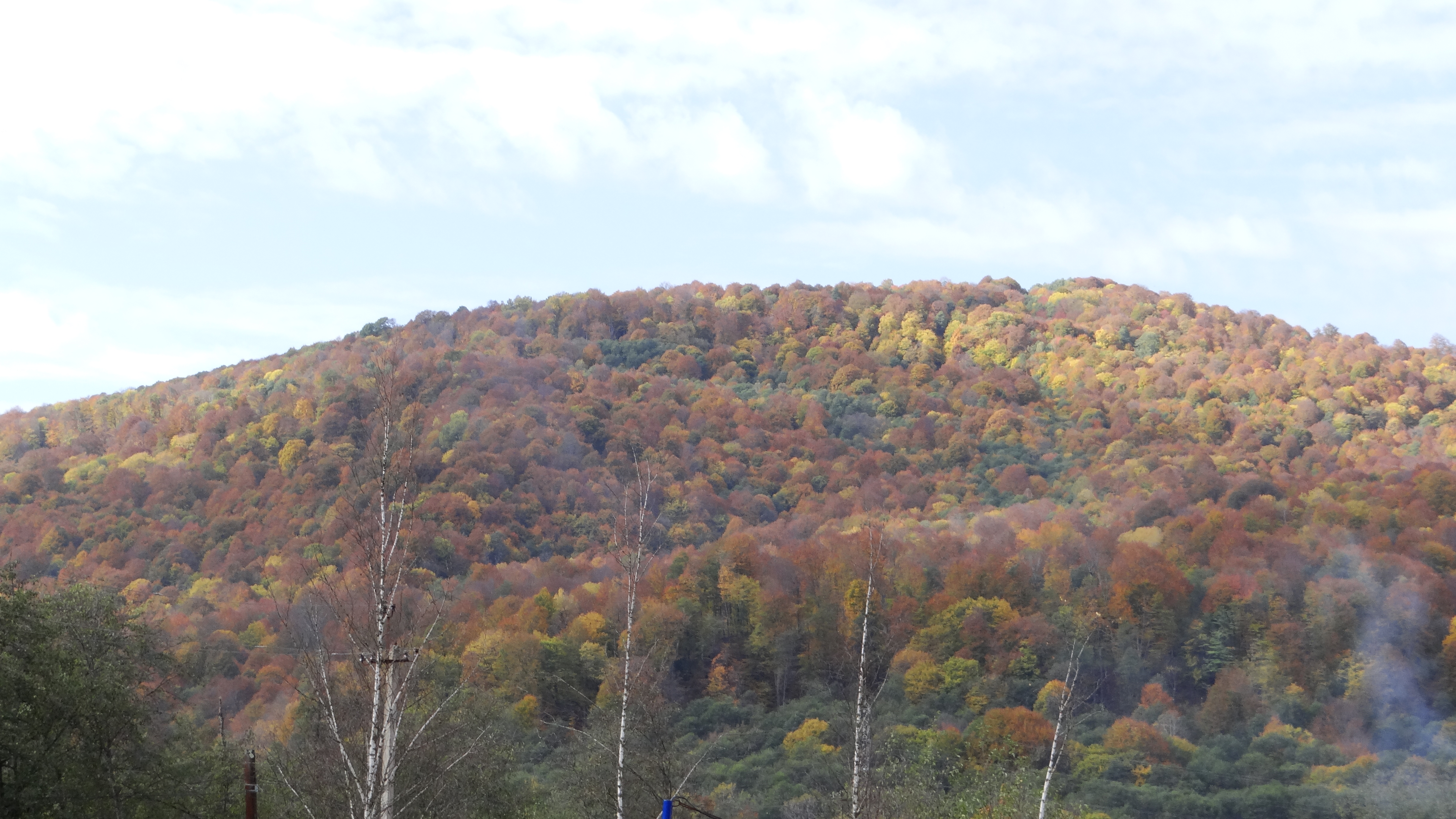 Urupsky District, Karachay-Cherkessia, Russia